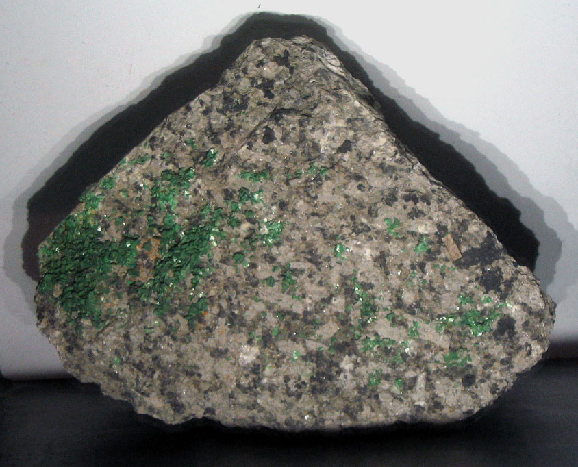 Bright green platy crystals of metatorbernite on granite, from Redruth, Cornwall, UK. Photograph taken at the Natural History Museum, London.